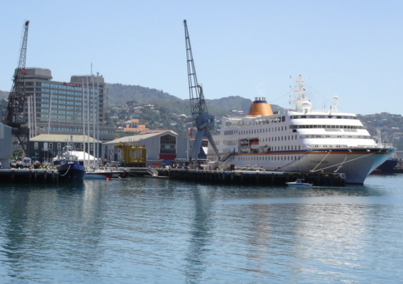 Hapag-Lloyd cruise ship C. Columbus in Wellington, New Zealand, in the Wellington Harbour. IMO Number: 9138329 : MMSI Number: 309908000 Callsign: C6OX6 Length: 144 m Beam: 20 mWellington Harbour